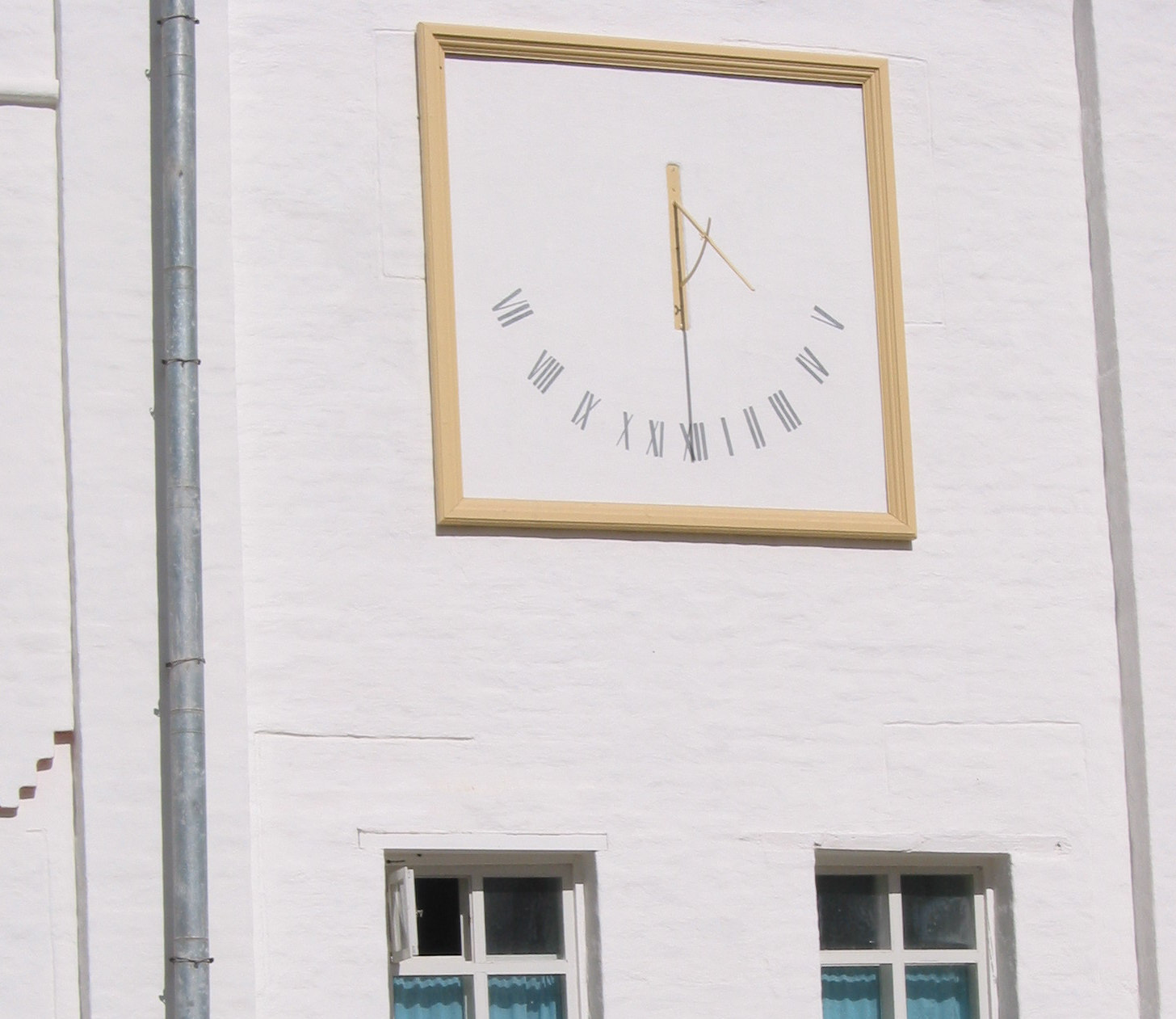 Wall sun-dial at Solovki monastery